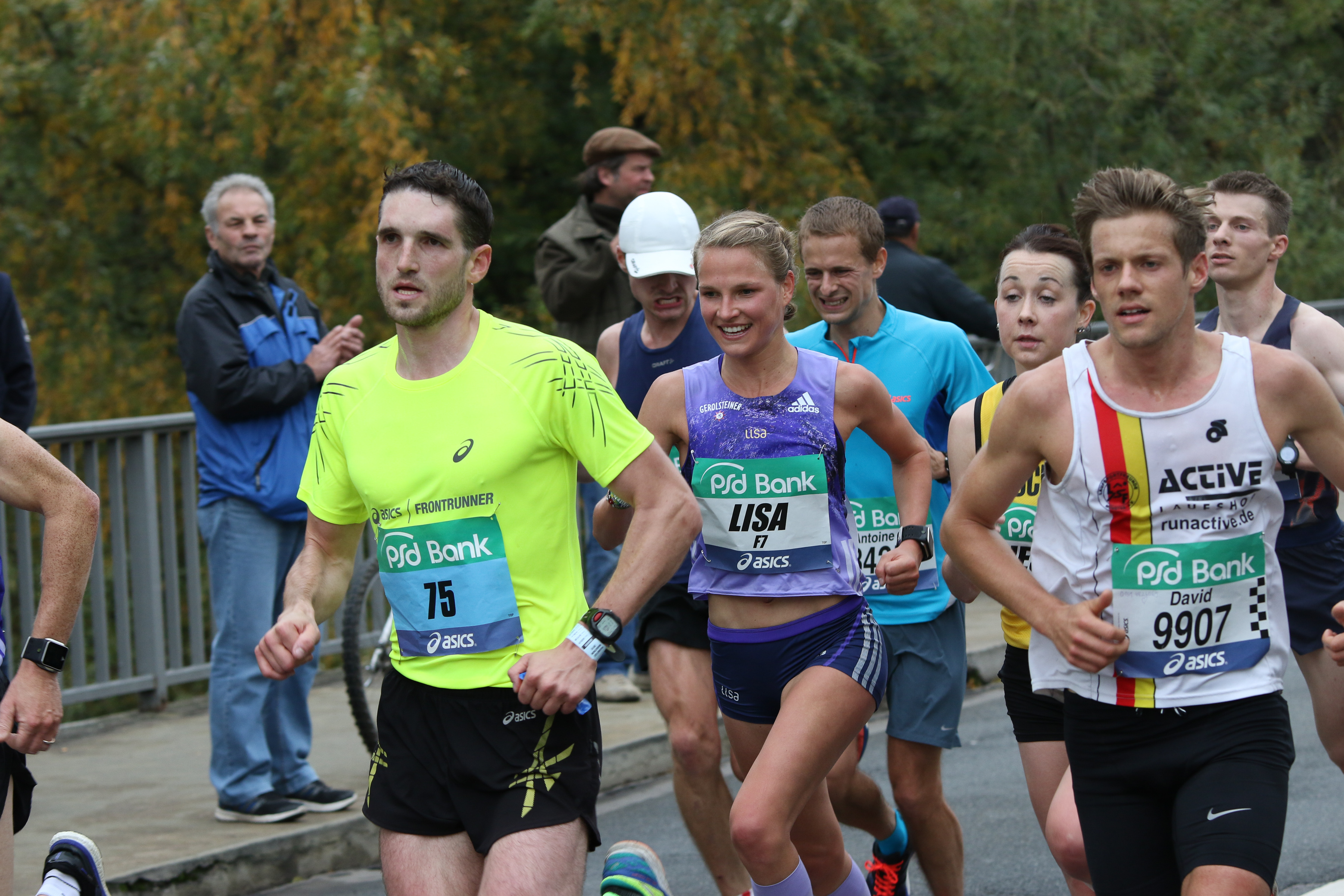 Frankfurt Marathon 2015 Old Nidda Bridge, Frankfurt-Nied